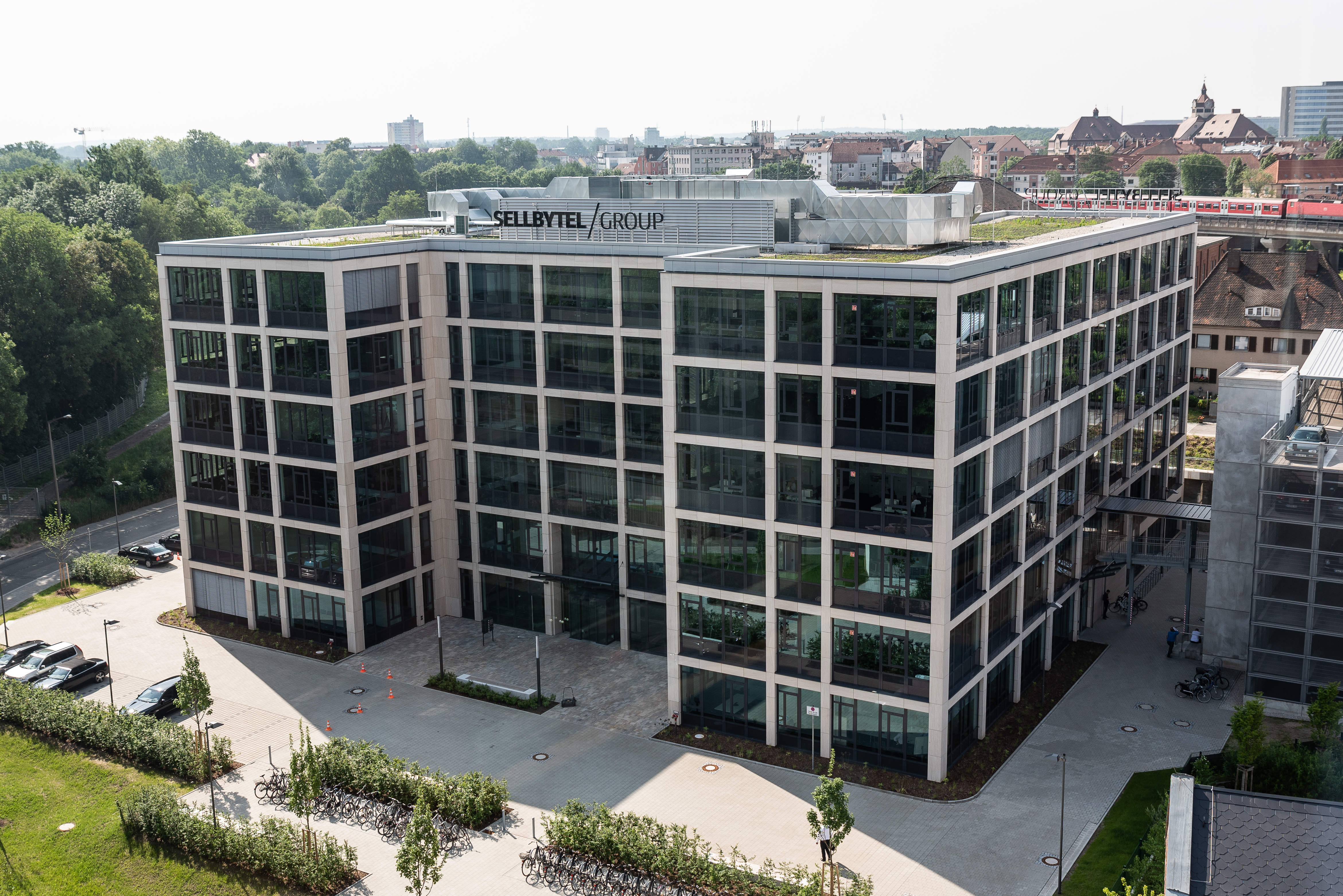 Headquarter of the SELLBYTEL Group GmbH in Nuremberg.